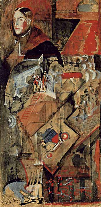 Portrait of A. Marienhof Watercolor, ink, whitewash, gouache on paper. 102 × 69 cm The painting is located in the State Literary Museum in Moscow, Russia.